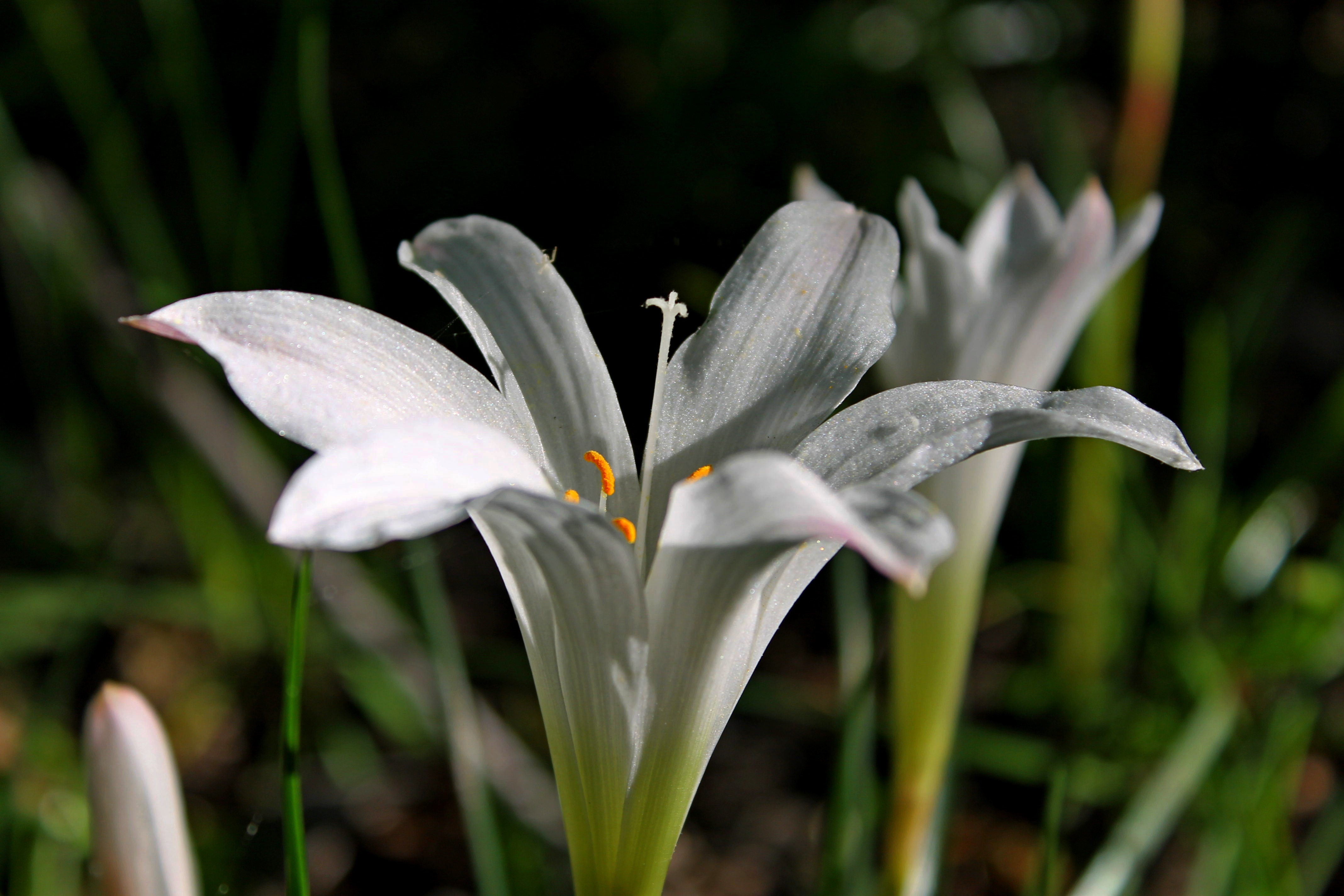 Atamasco Lily (Rain Lily), Badin Upland Swamp, Uwharrie National Forest, North Carolina, USA